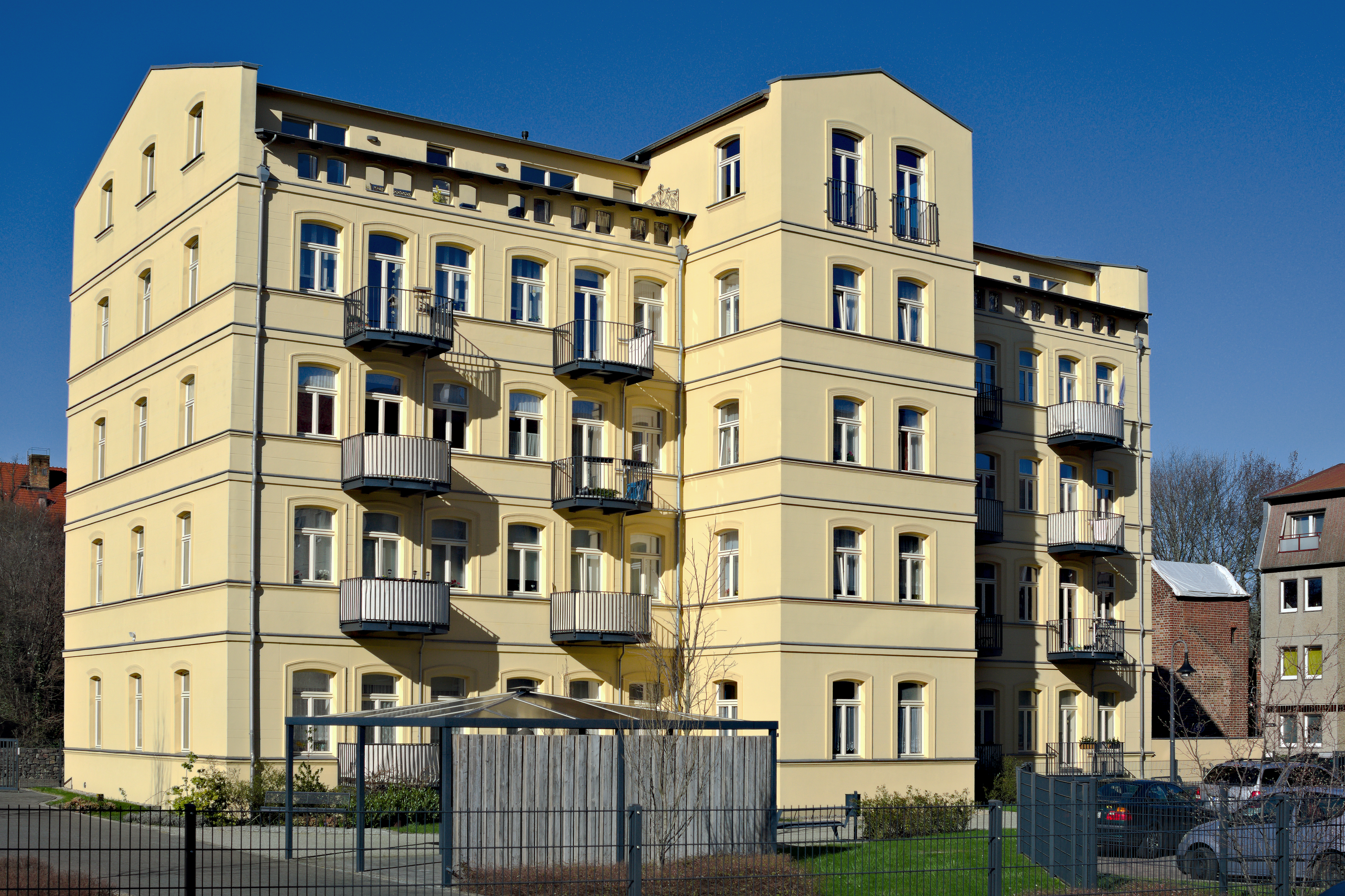 Cultural heritage monument Münzstraße 10 in Cottbus-Mitte.